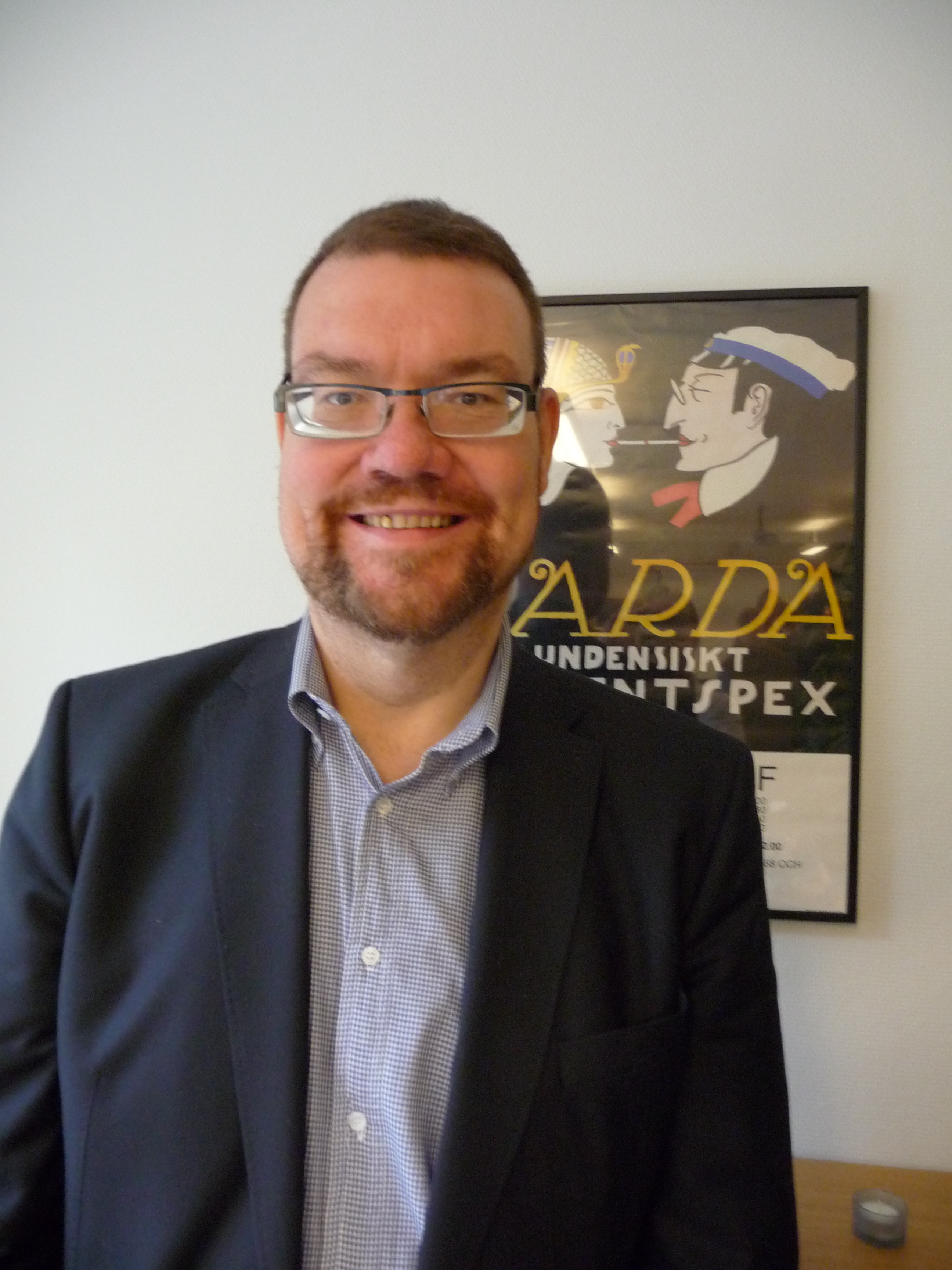 (Beskrivning av innehållet)